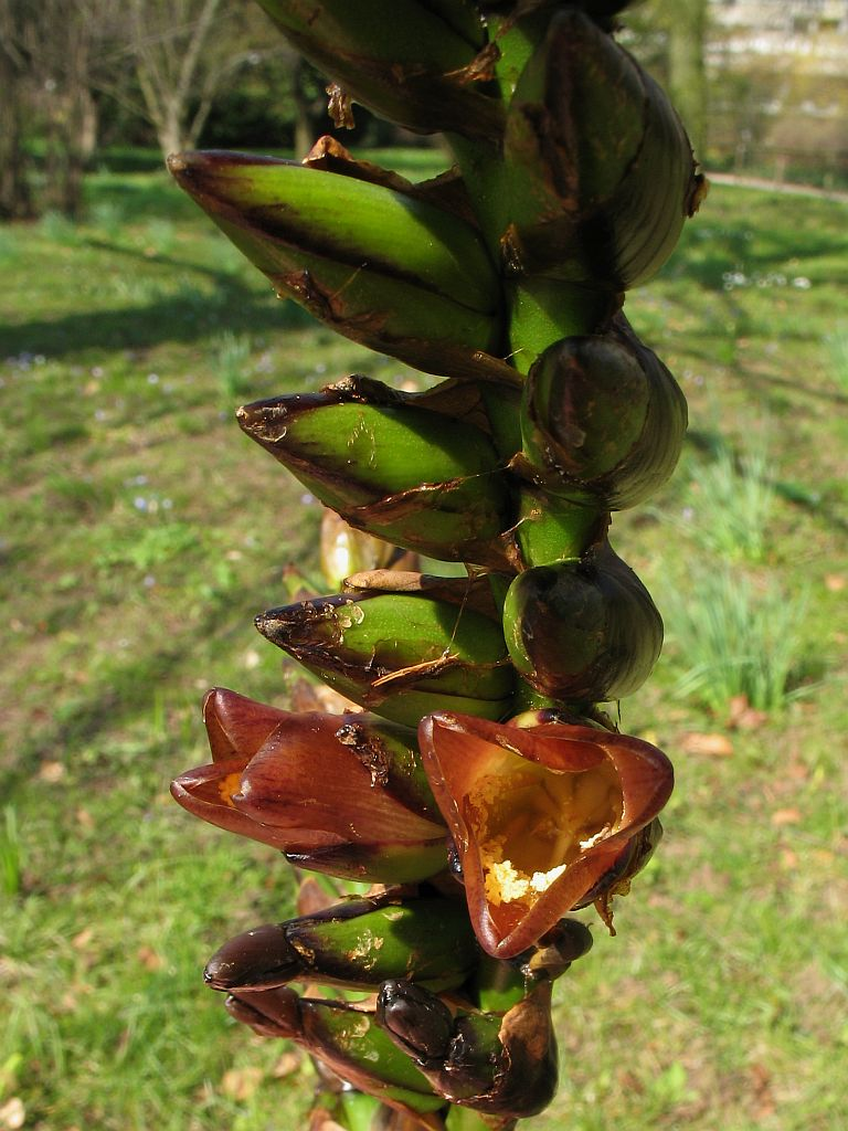 Werauhia ochracea in cultivation at the Botanical Garden of Heidelberg, Germany.